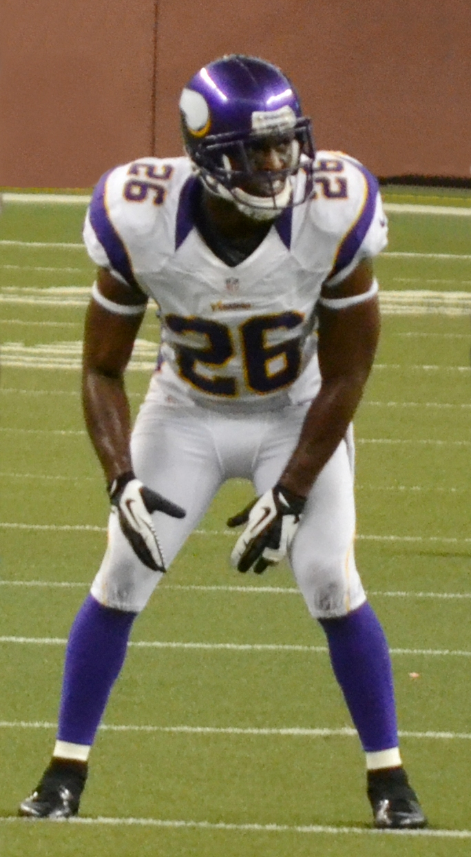 Antoine Winfield covering Calvin Johnson at Ford Field on September 30, 2012